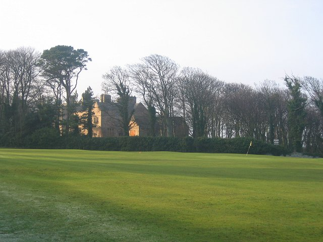 Carlekemp. Big house across the West Links.